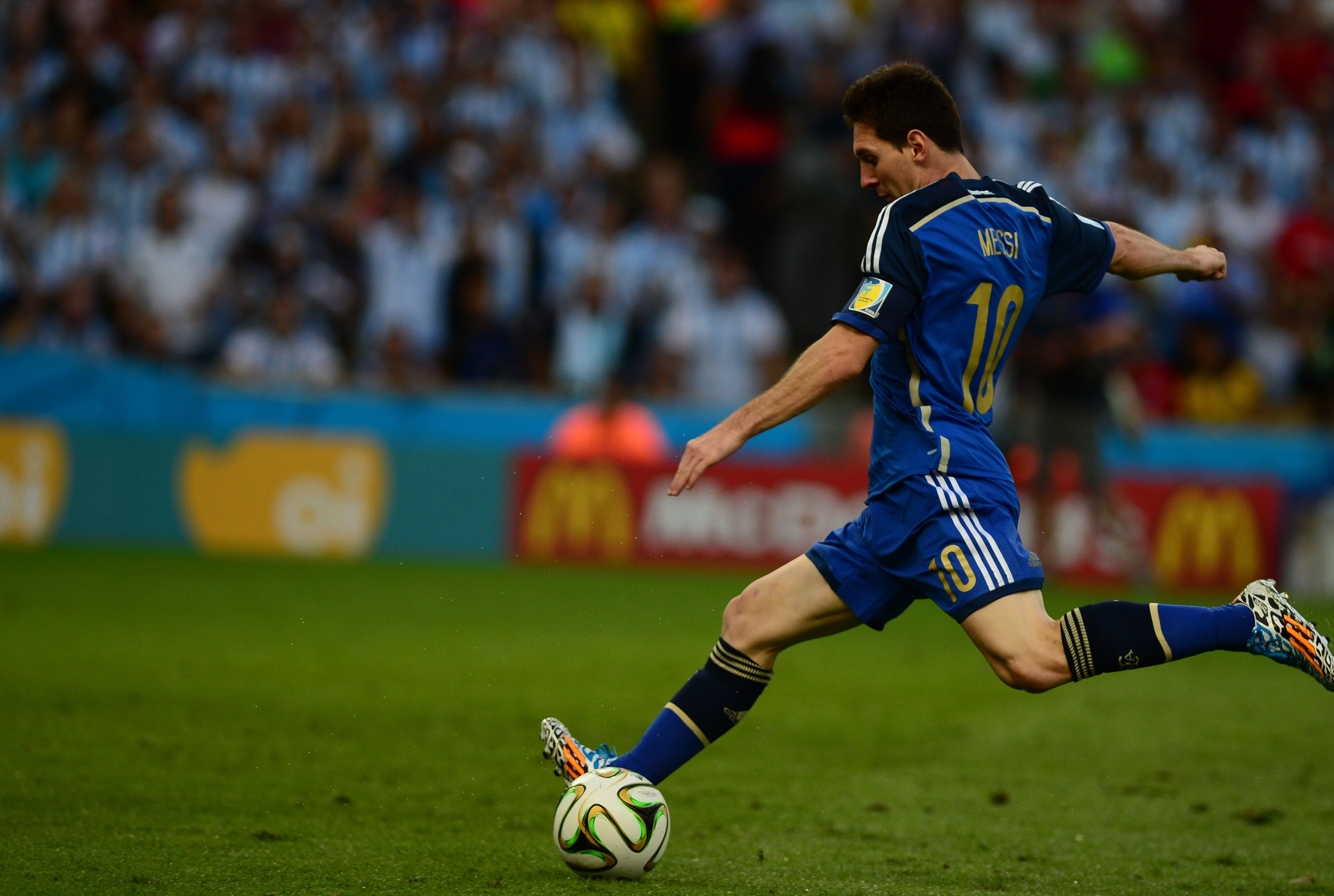 Germany and Argentina face off in the final of the World Cup